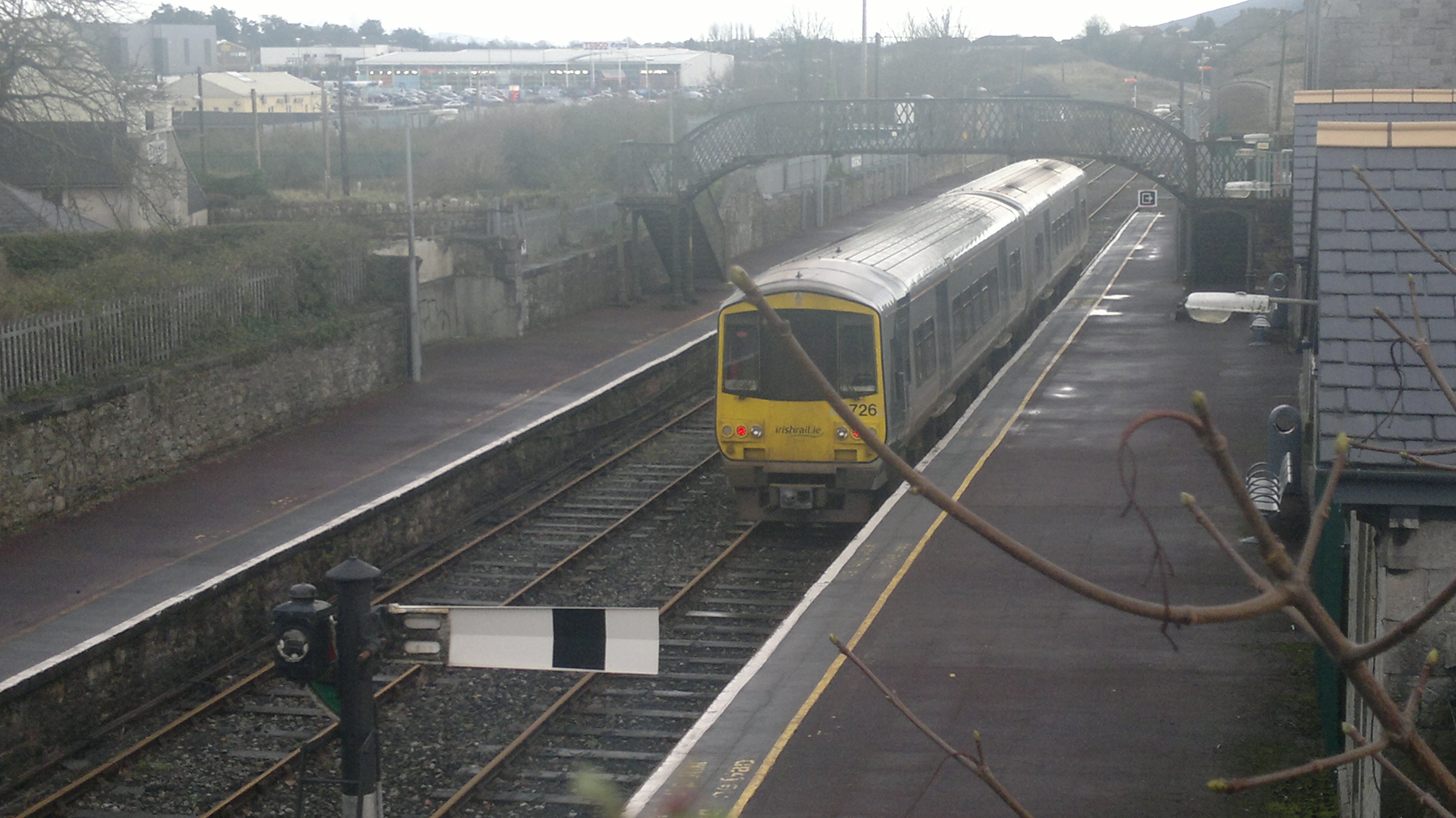 Iarnród Éireann GEC 2700 class